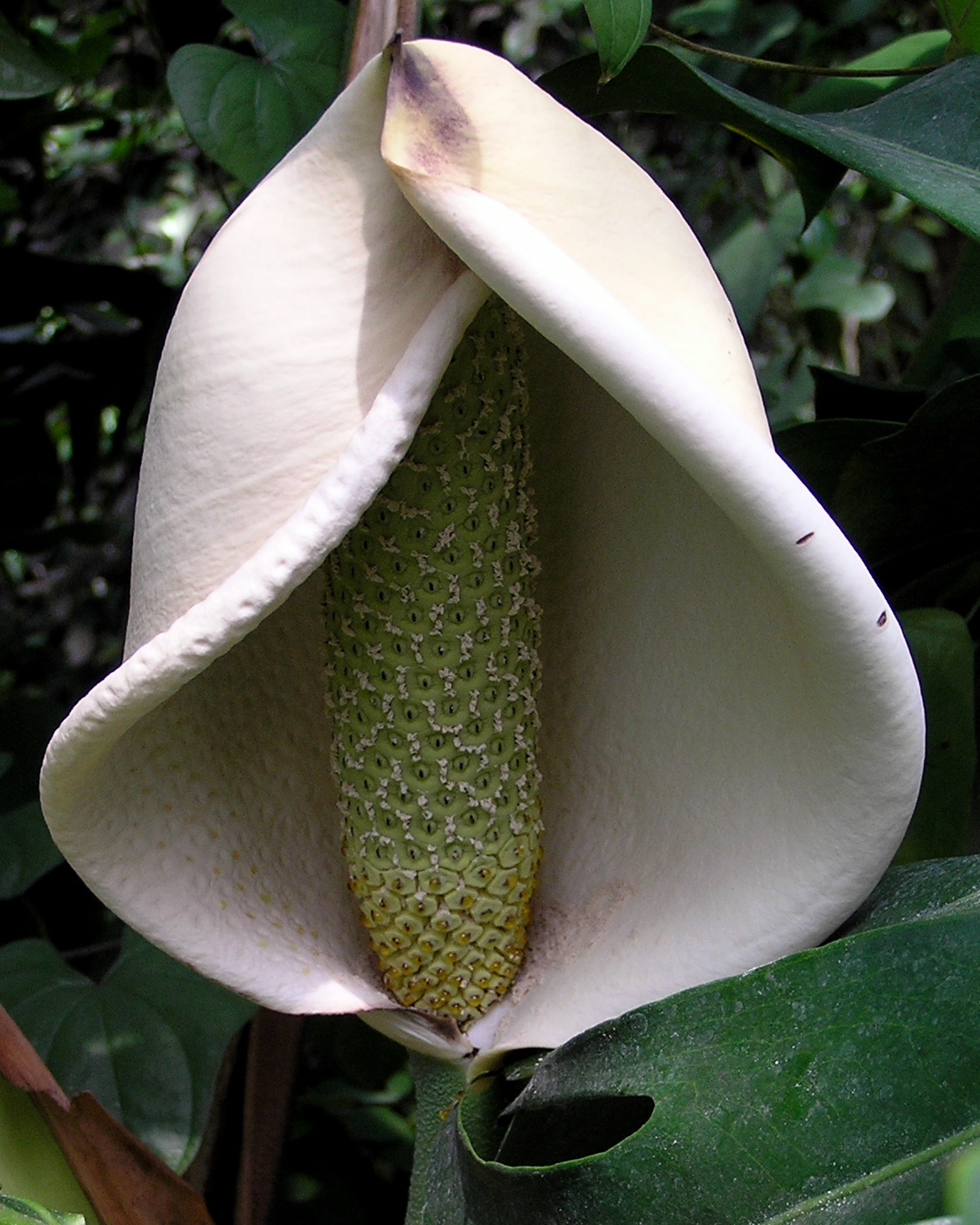 Inflorescence of Monstera deliciosa